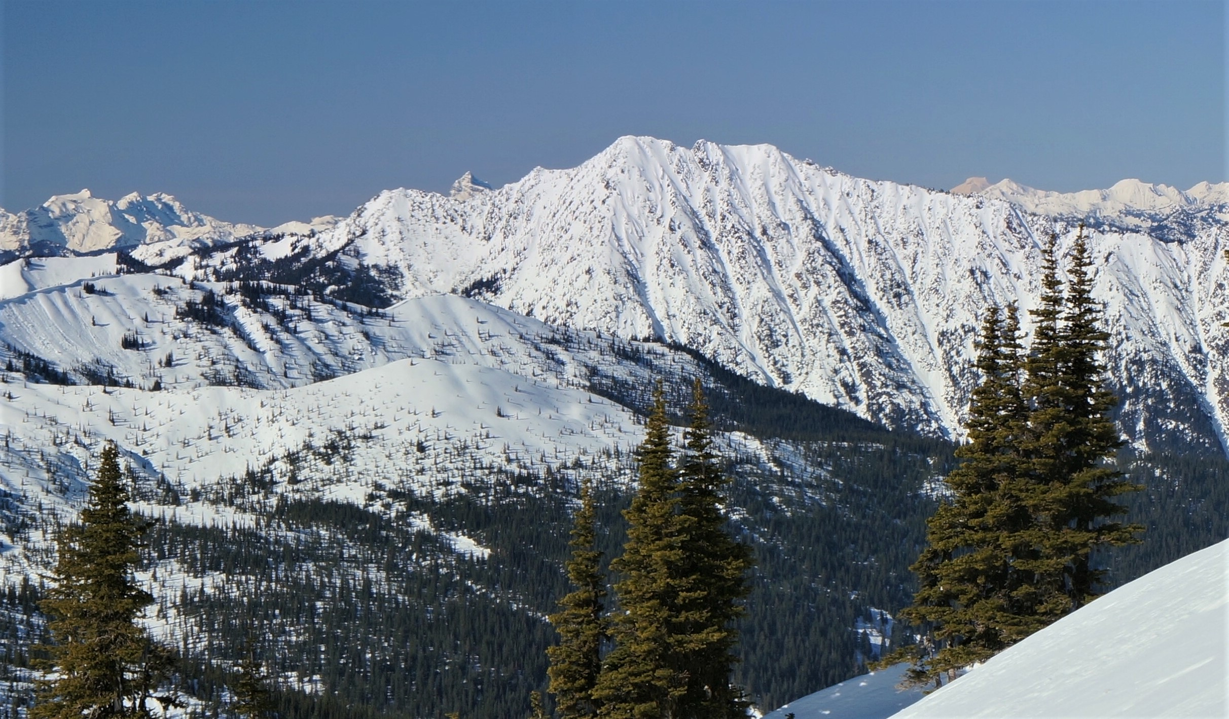 Jim Hill Mountain from the southeast